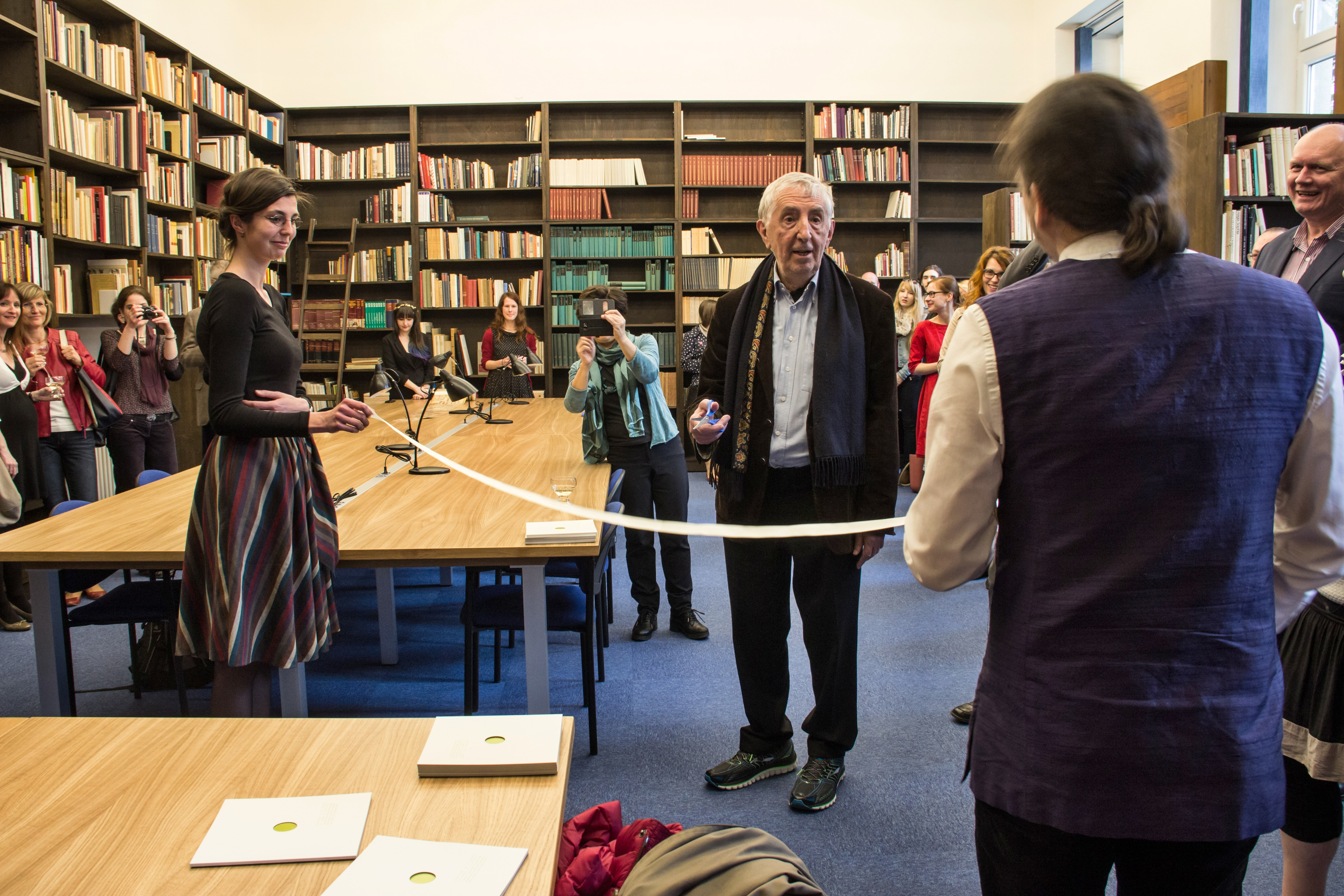 Ceremonial opening of Hans Belting Library in building of Faculty of Arts of Masaryk university in Brno, Czech republic. Hans Belting himself was present. 19.4.2016